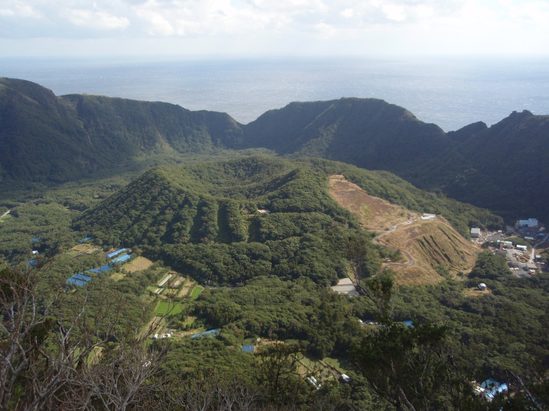 Maruyama in Aogashima, Tokyo.